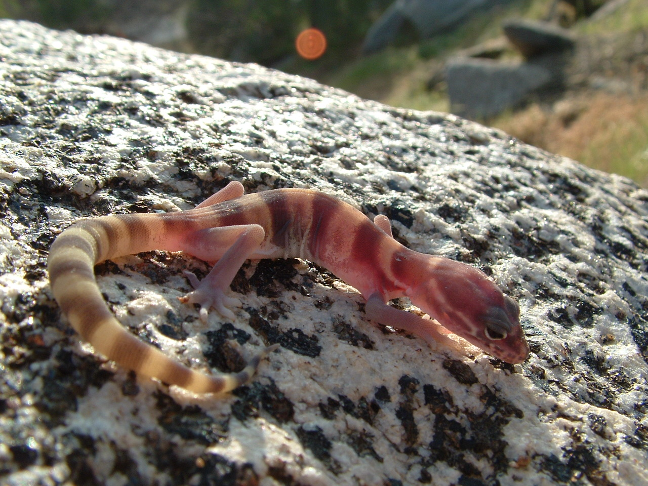 San Diego Banded Gecko (Coleonyx variegatus abbotti) - Lakeview Mountains, California, elevation 1800 ft., 4 Apr 2004. Found alive under a trash can. Photo taken with Fujifilm FinePix S3000. Photographer: Takwish